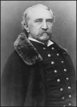 Photo of Luther Prentice Bradley (1822-1910)